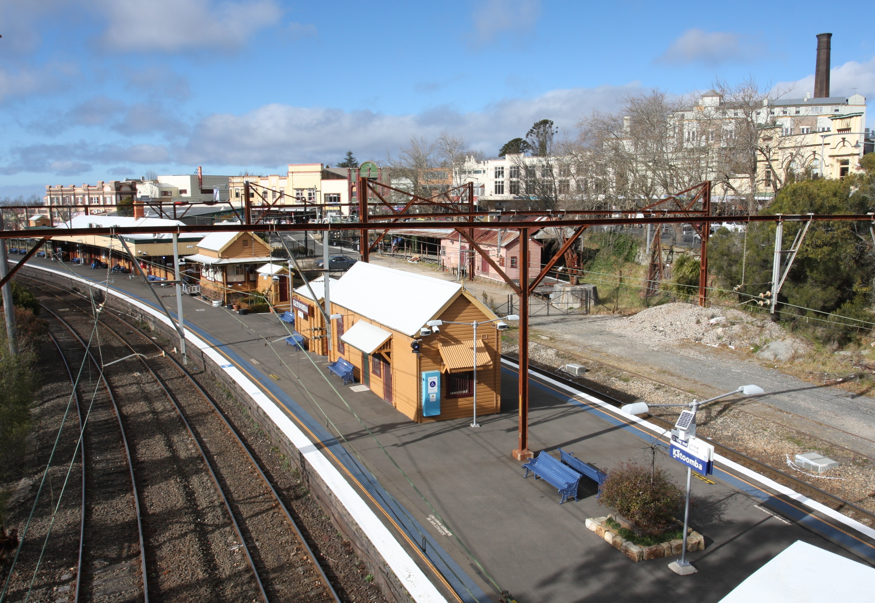 Katoomba Railway Station